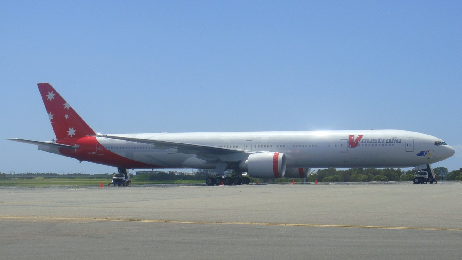 V Australia Boeing 777-300ER at Brisbane Airport outside old international terminal.